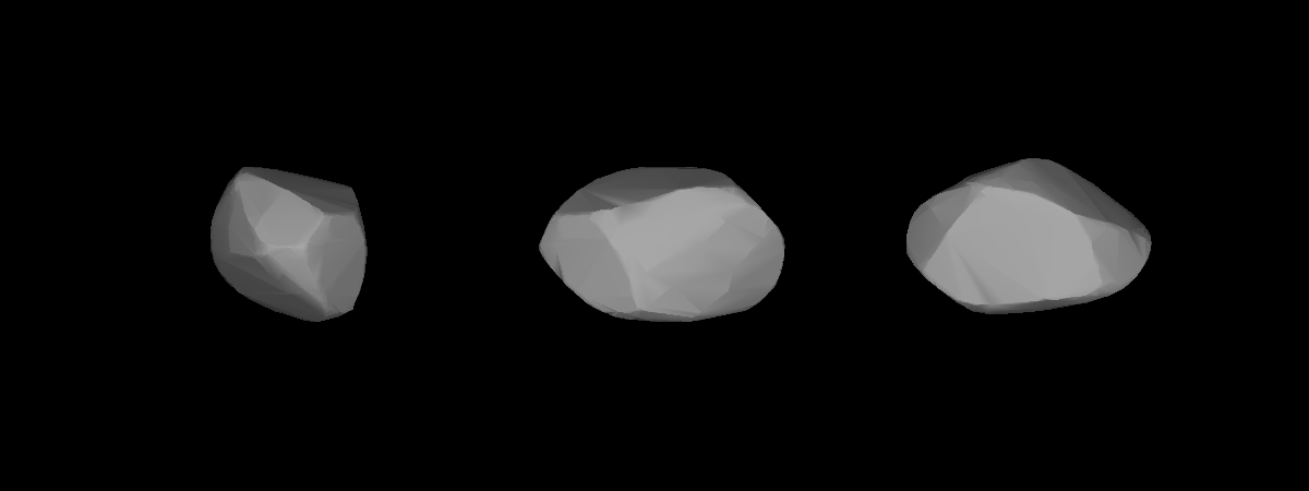 A three-dimensional model of 1002 Olbersia that was computed using light curve inversion techniques.